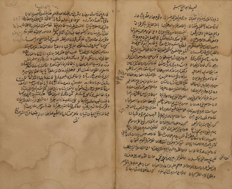 Arabic poem by al-Busti (d. 400 AH/1010 CE)